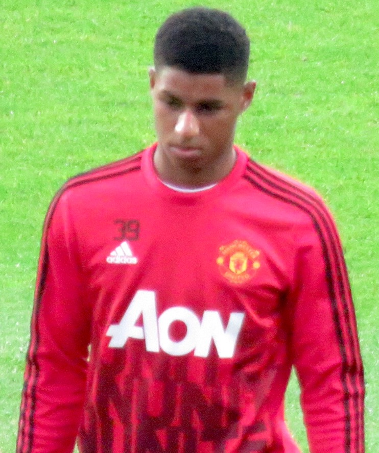 Manchester United player, Marcus Rashford, warming up before their game against West Ham United at the Boleyn Ground, the final first class game to be played at the stadium.